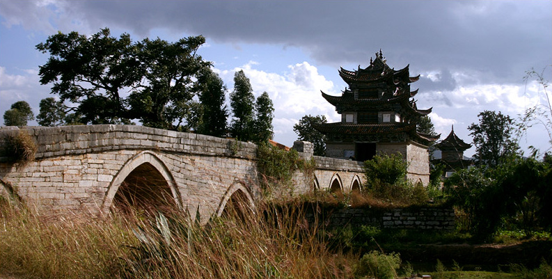 Shi Qi Kong Qiao (or Seventeen Span Bridge) in Jianshui, Yunnan. Took it myself (prat), 2004-11-07.